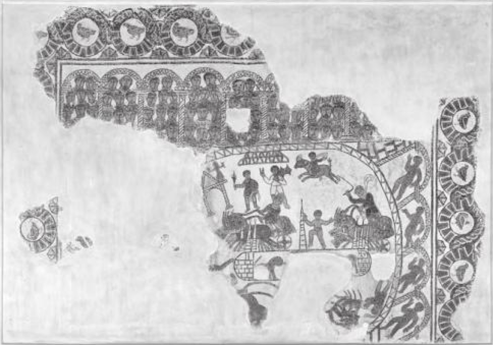 This image shows the races witnessed by masses of people at the Circus of Carthage, and the bishop of Hippo stated that the games did not give the money to the poor but to more games in the future (page 258) Through the Eye of a Needle: Wealth, the Fall of Rome, and the Making of Christianity in the West, 350-550 AD